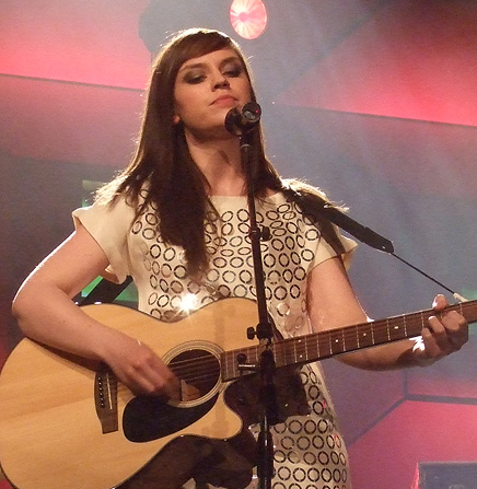 Amy Macdonald performing in Amadeus Austrian Music Awards 2008 in Vienna